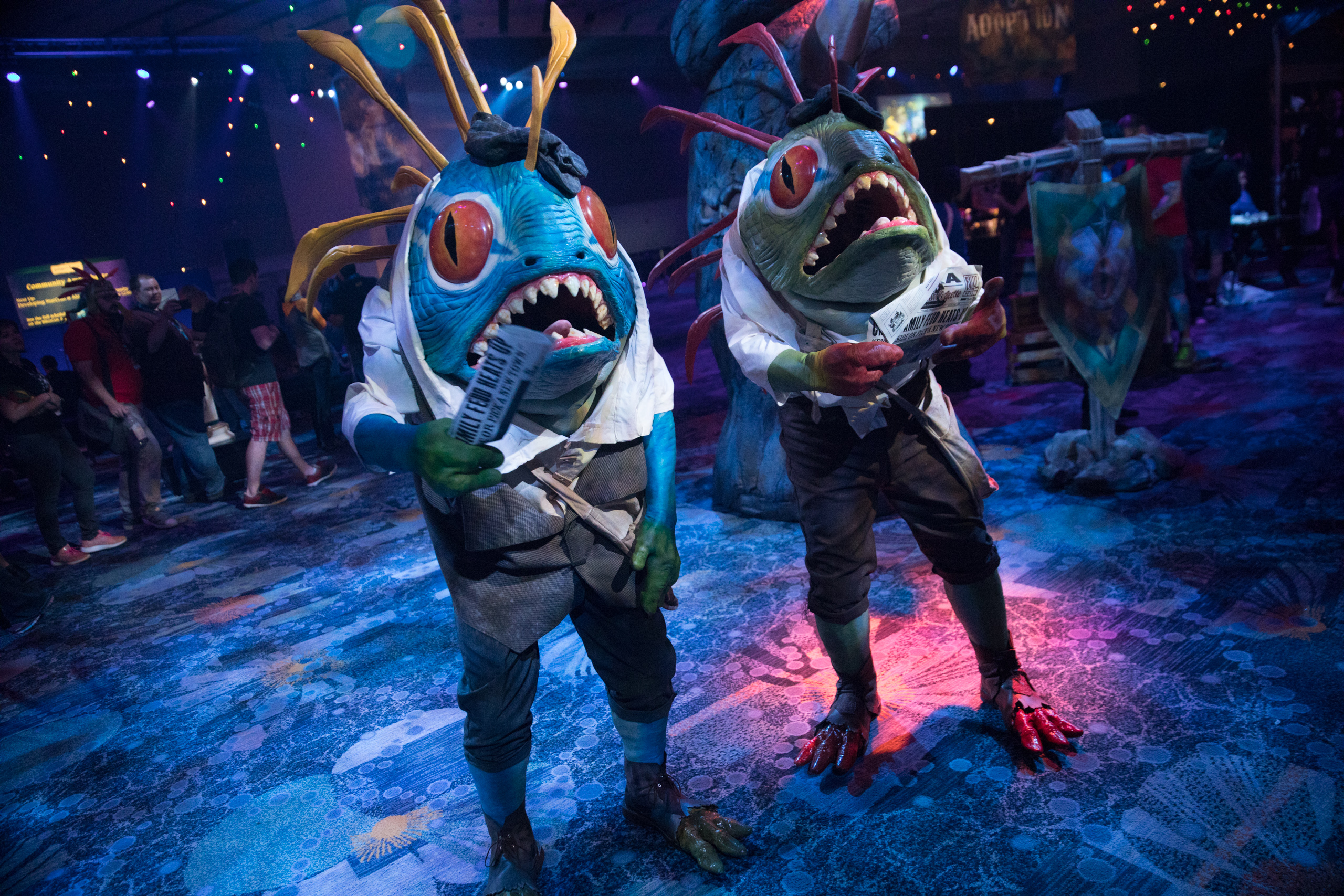 Murloc Costumes built for Blizzcon 2017